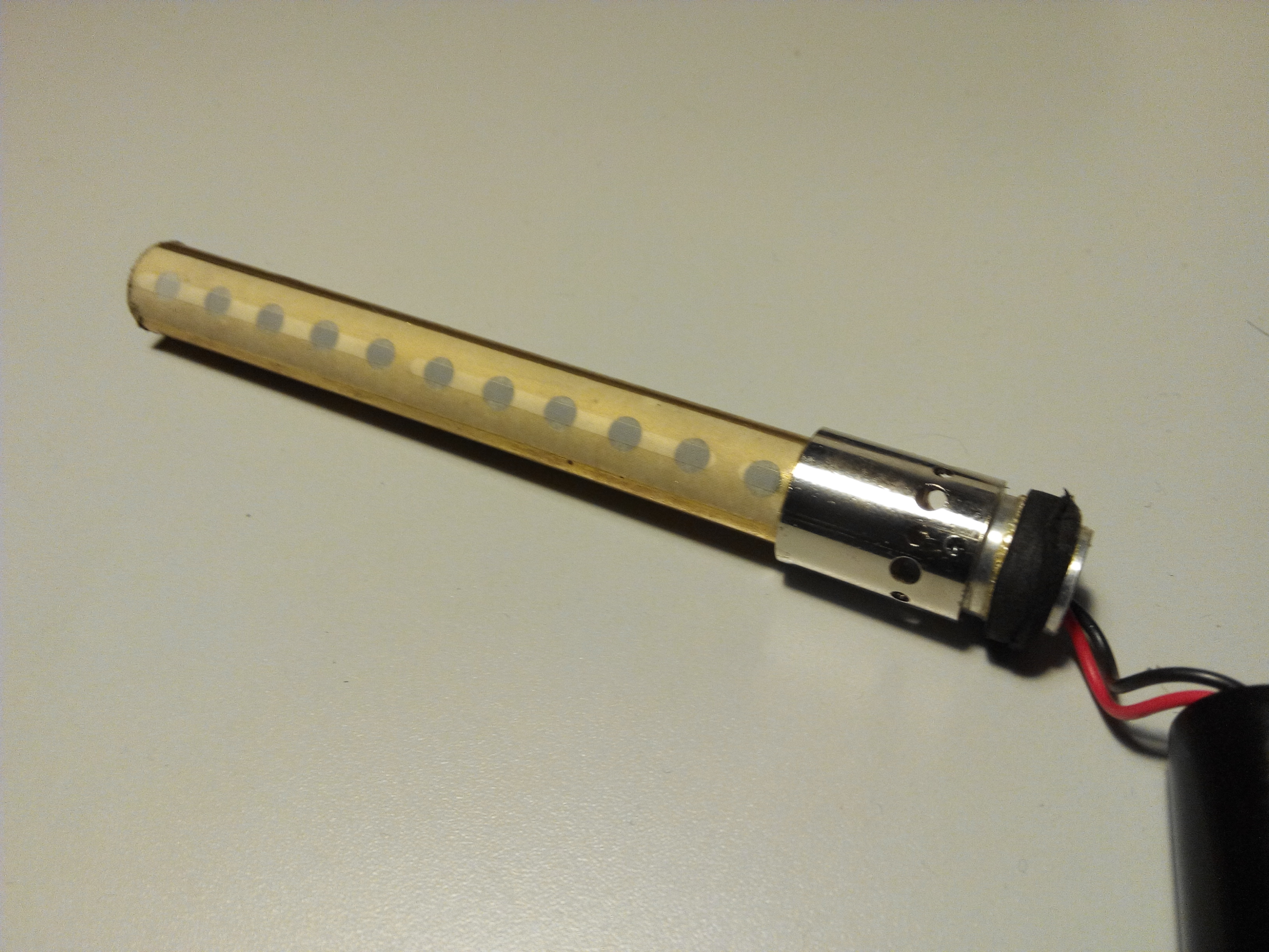 The interference tube of a shot-gun microphone.